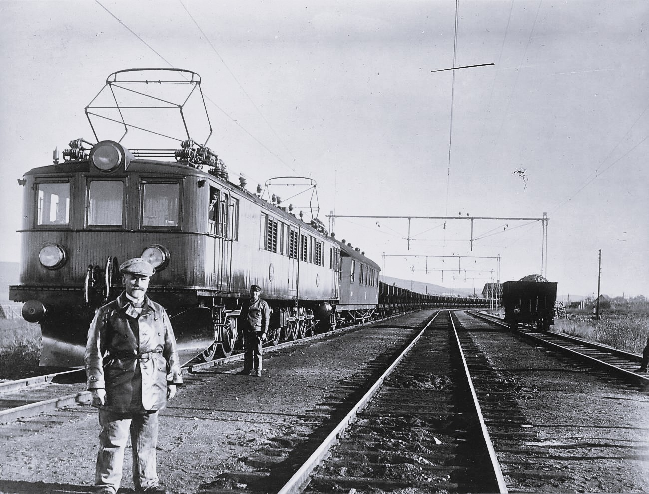 Electrical ore trains on the line Luleå - Narvik before 1950